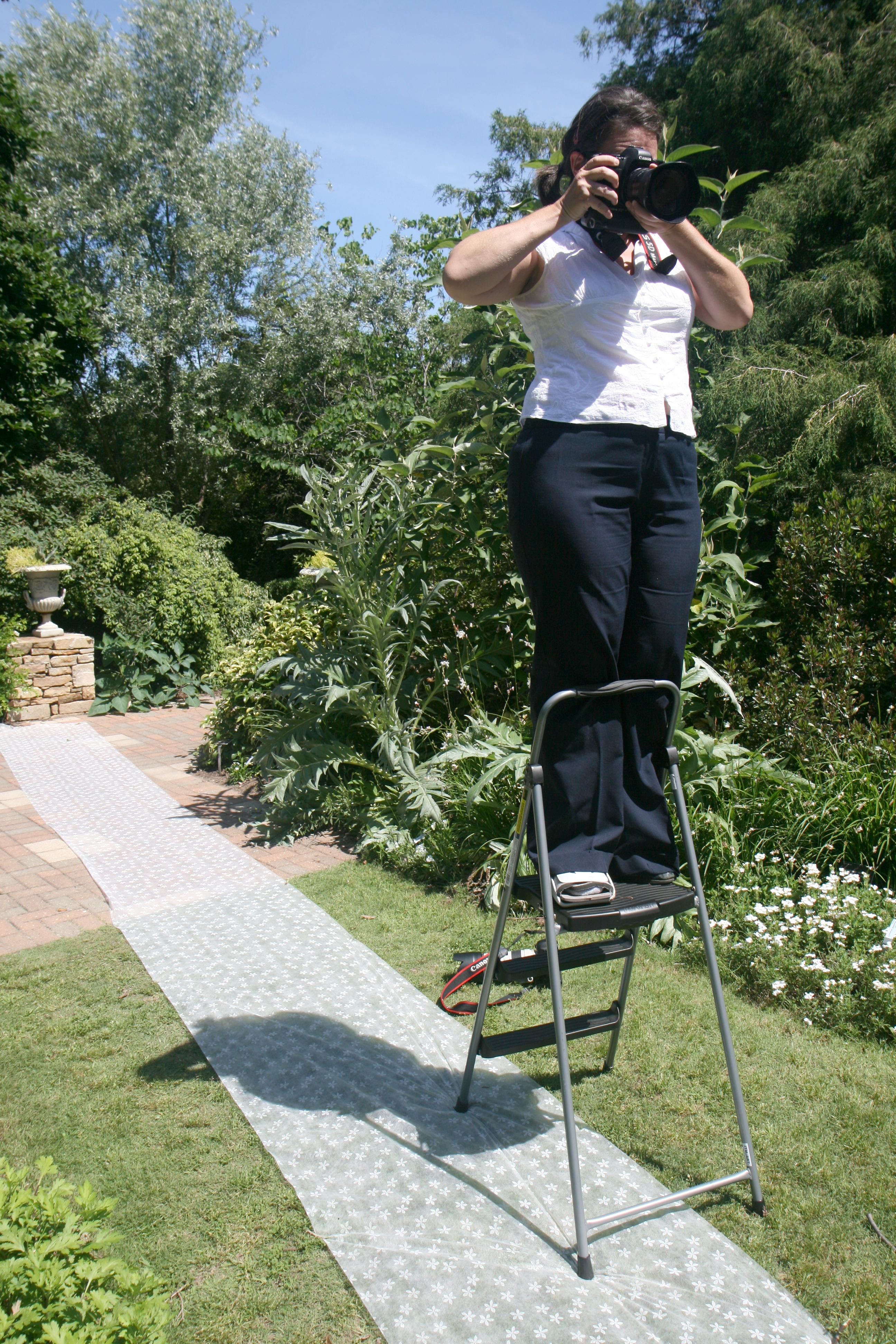 Photographer using a step stool to get a good angle at a wedding held at the J. C. Raulston Arboretum in Raleigh, North Carolina.